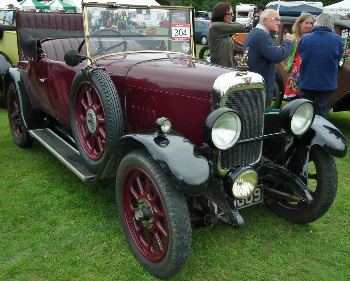 Alvis TG 12/50 1600cc open 2-seater with dickey seat 1928"rebuilt 40 years ago with a copy of an original Cross & Ellis wide 2-seater body"